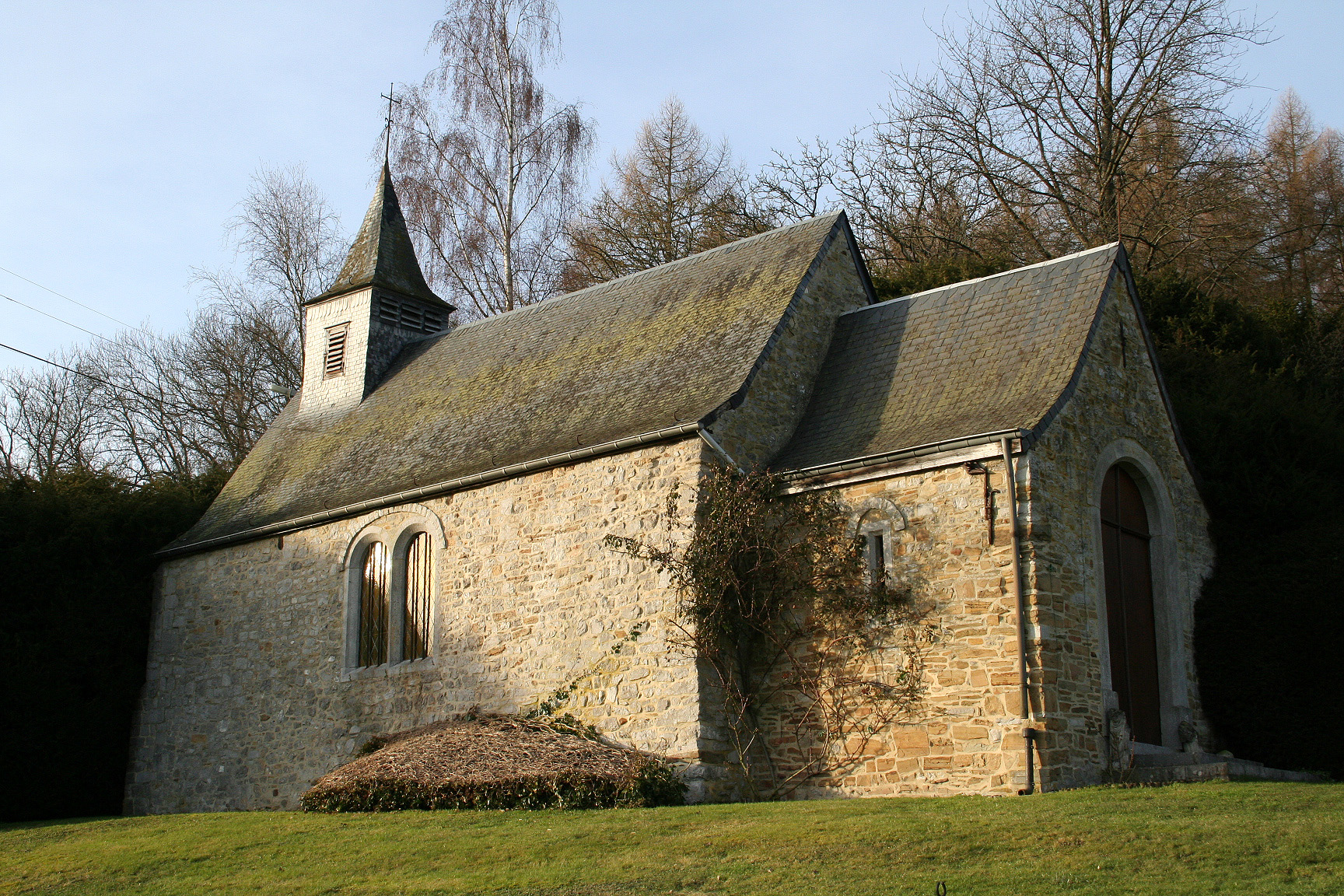 Jannée (Belgium), the old castle chapel (XVIth century).